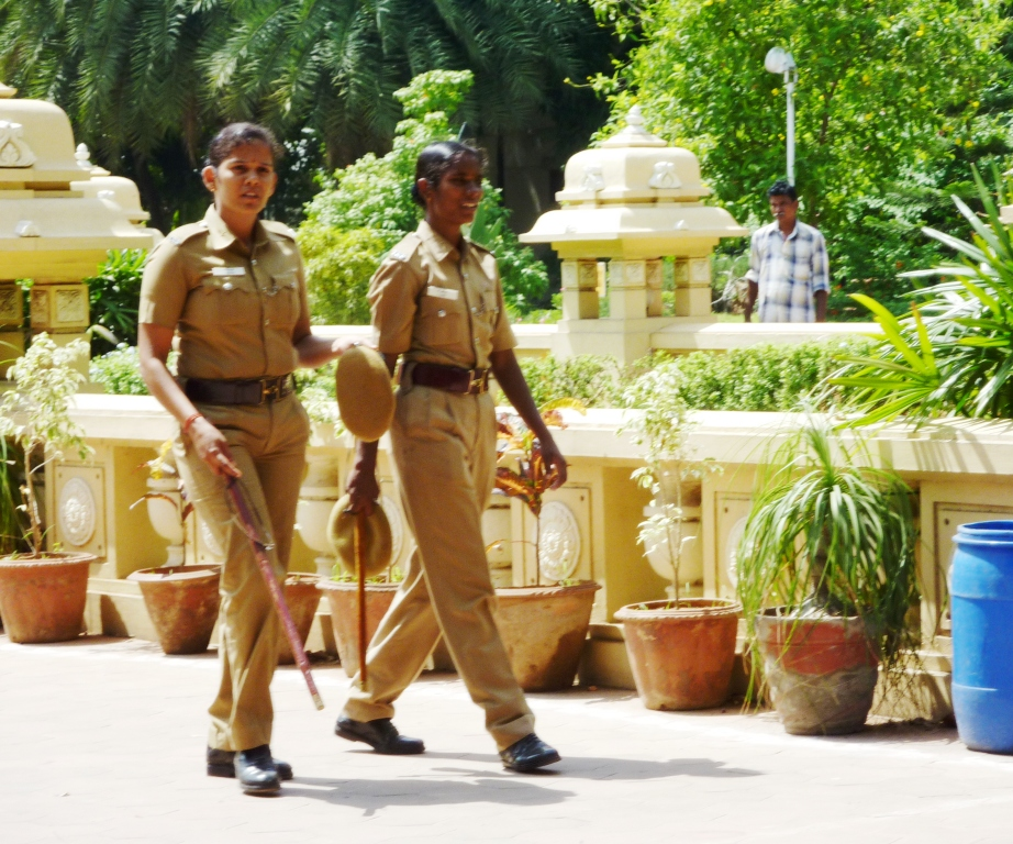 I took this photo myself on a trip to Chennai in 2010.